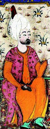 Ottoman miniature of the Grand Vizier Rustem Pasha